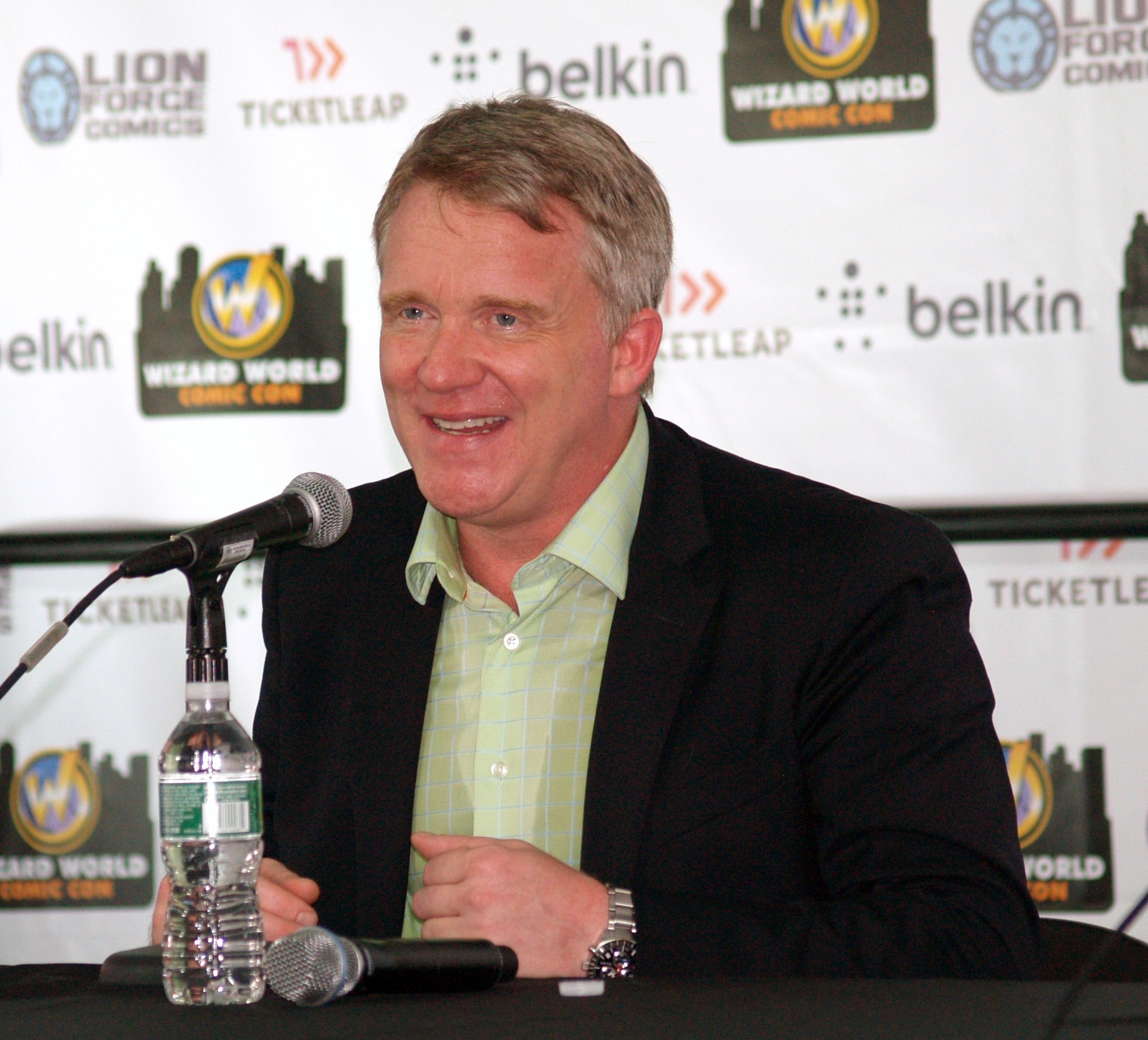 Actor Anthony Michael Hall during a June 30, 2013 Q&A session at the 2013 Wizard World New York Experience at Pier 36 in Manhattan. This photo was created by Luigi Novi. It is not in the public domain, and use of this file outside of the licensing terms is a copyright violation.